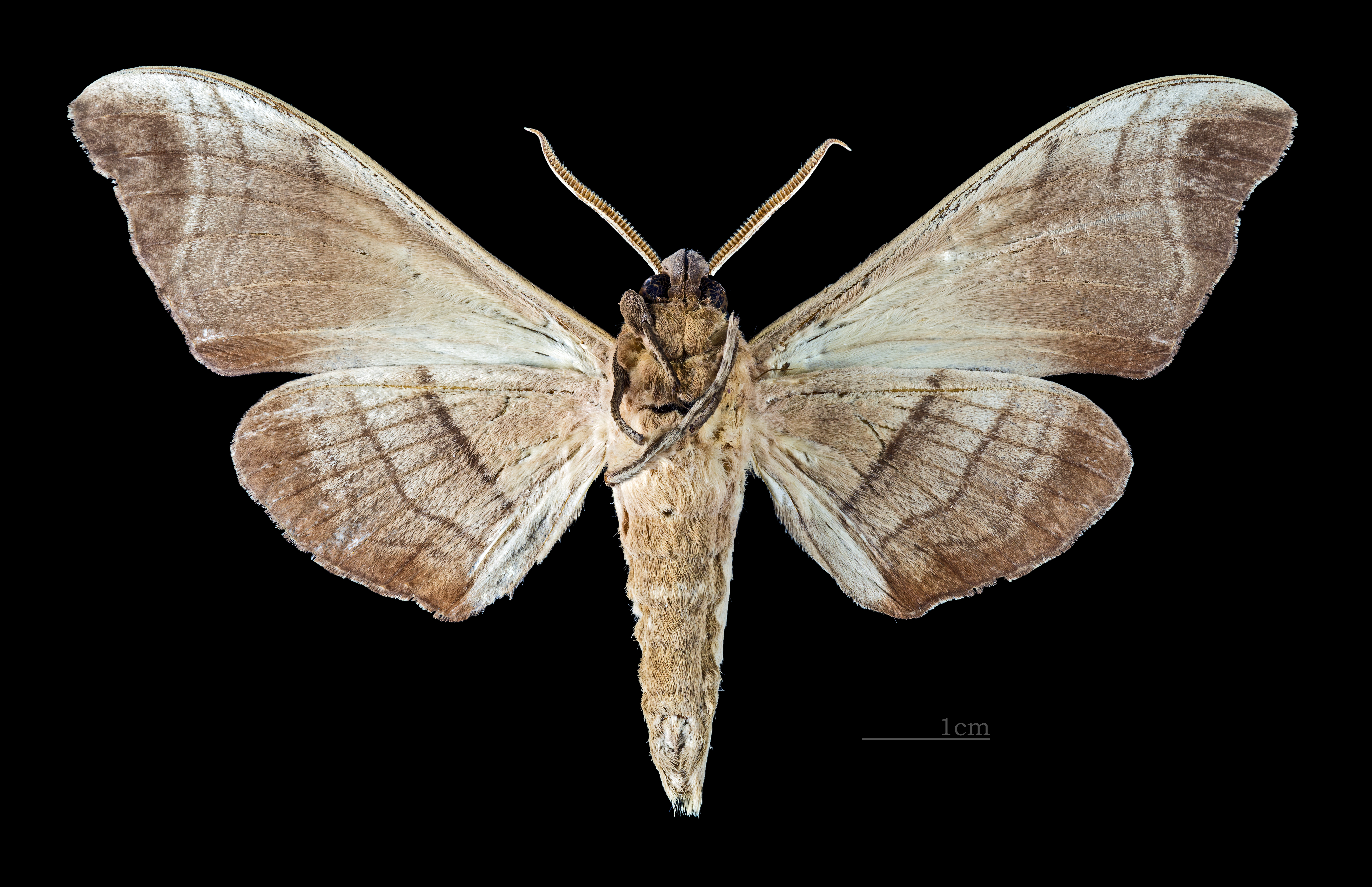 Marumba amboinicus - △ Ventral side Collection of the Mathematician Laurent Schwartz